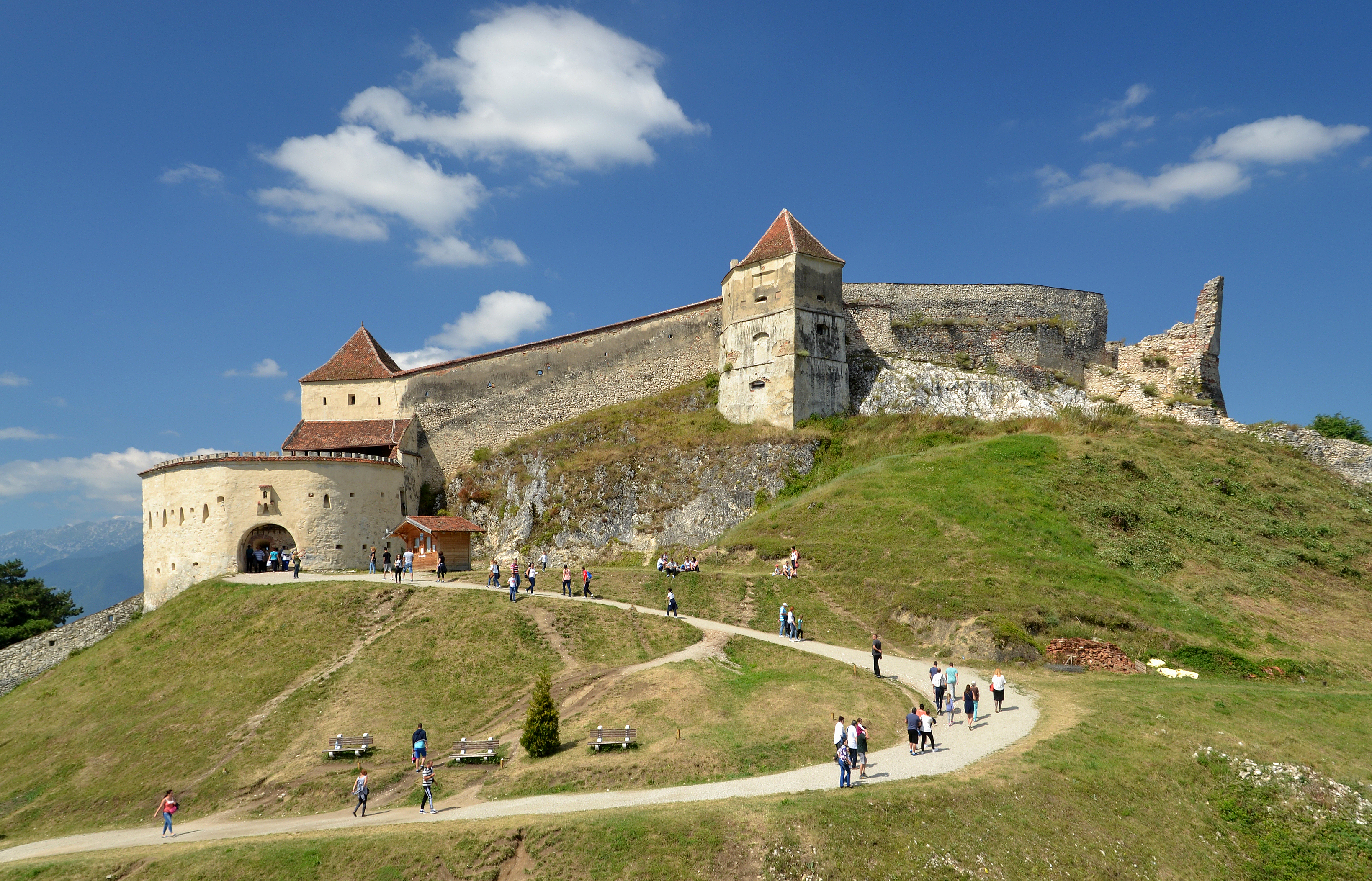 Citadel (castle) in Râşnov (Barcarozsnyó, Rosenau), Romania